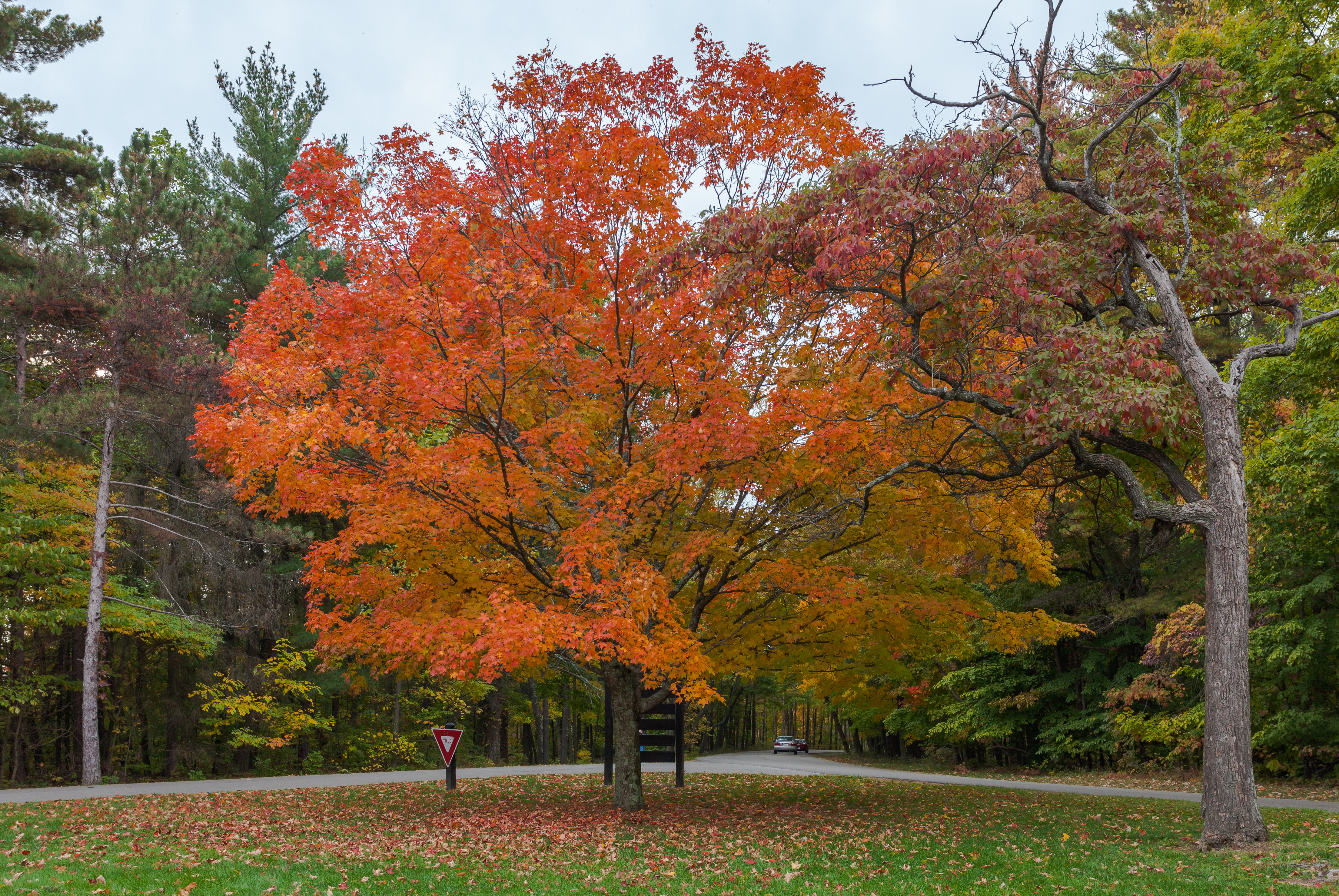 Brown County State Park, Indiana, USA